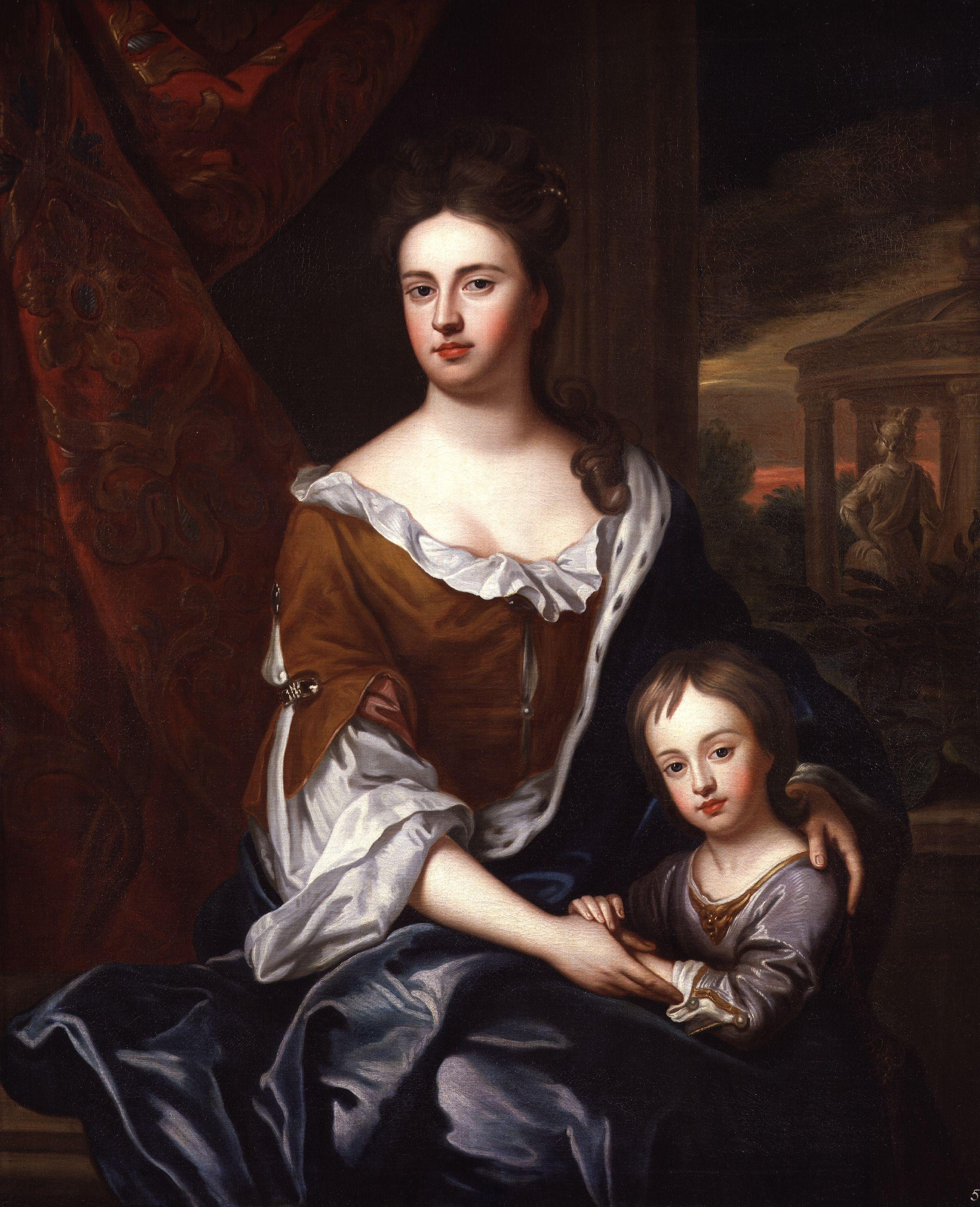 Queen Anne; William, Duke of Gloucester